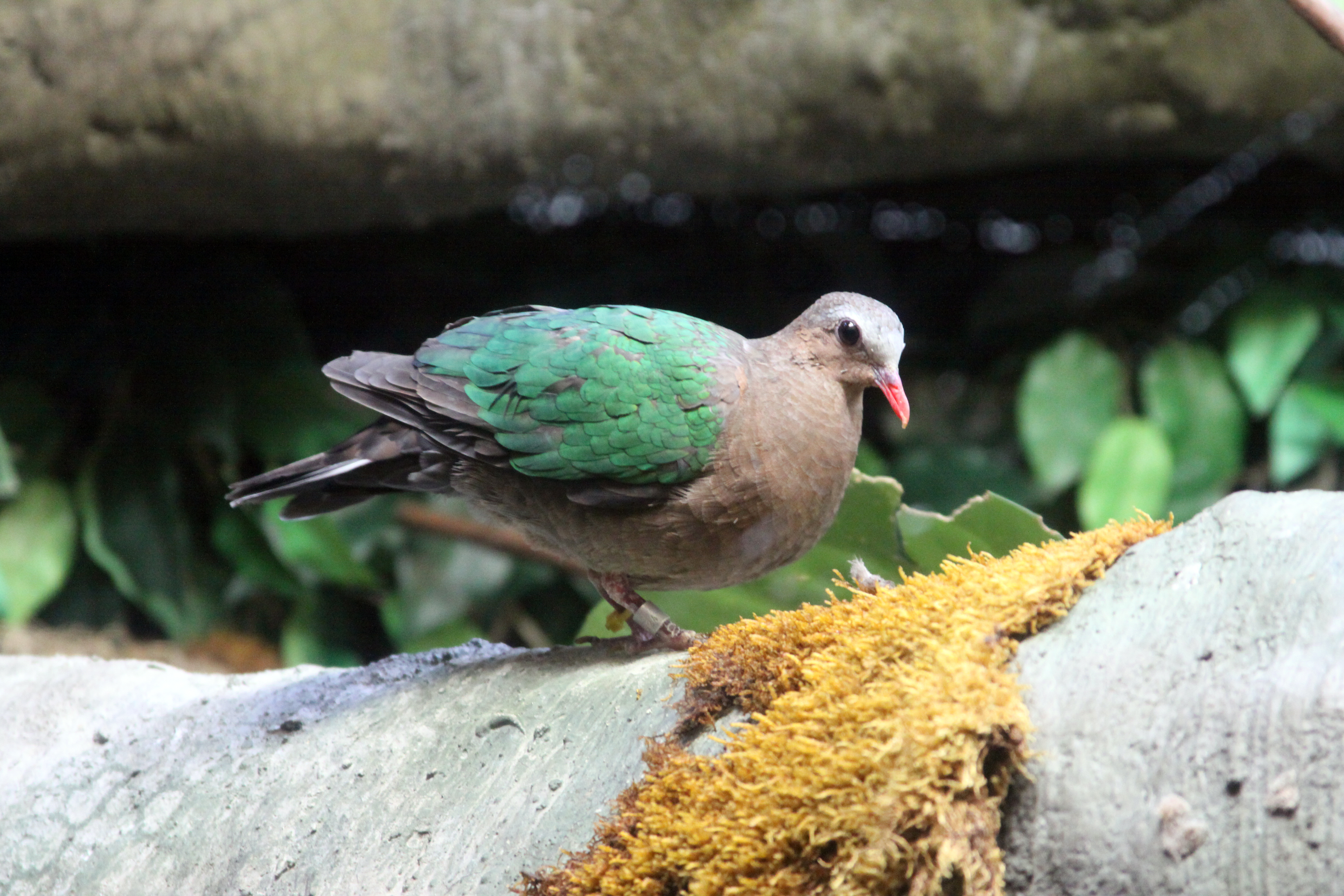 A female Emerald Dove at Memphis Zoo, Tennessee, USA.